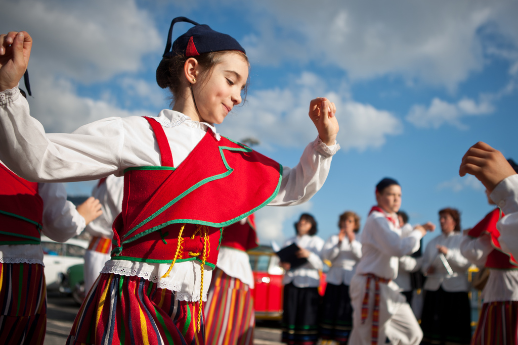 Child dancing the Bailino da Madeira